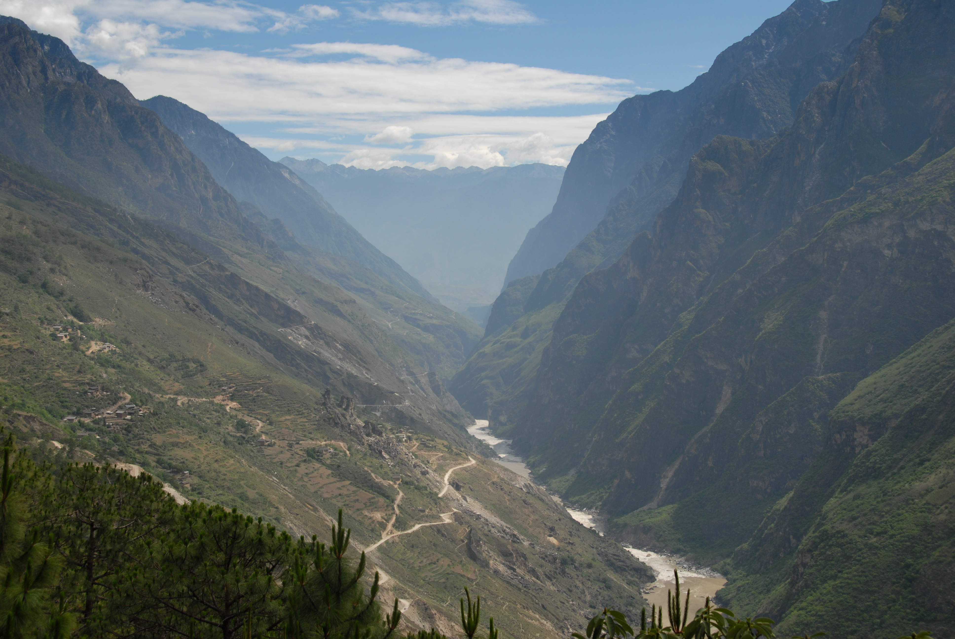 Hiking in Tiger Leaping Gorge, Yunnan Province, China.